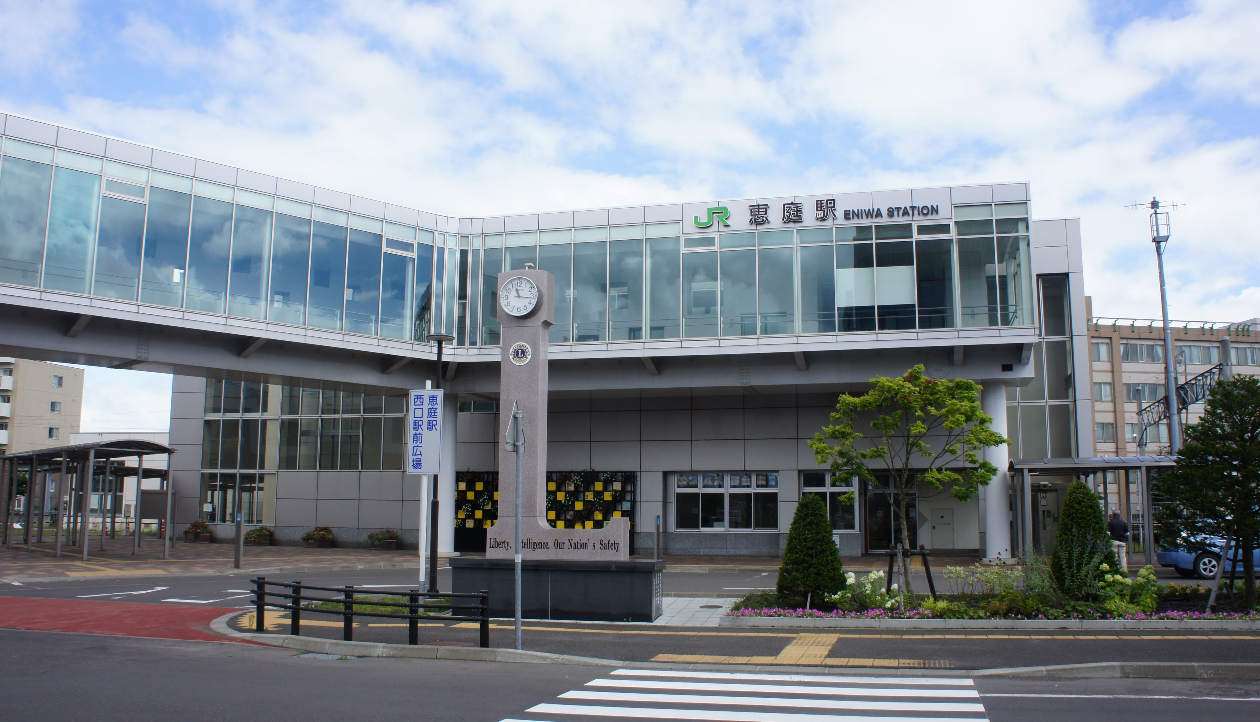 West Exit of JR Chitose-Line Eniwa Station